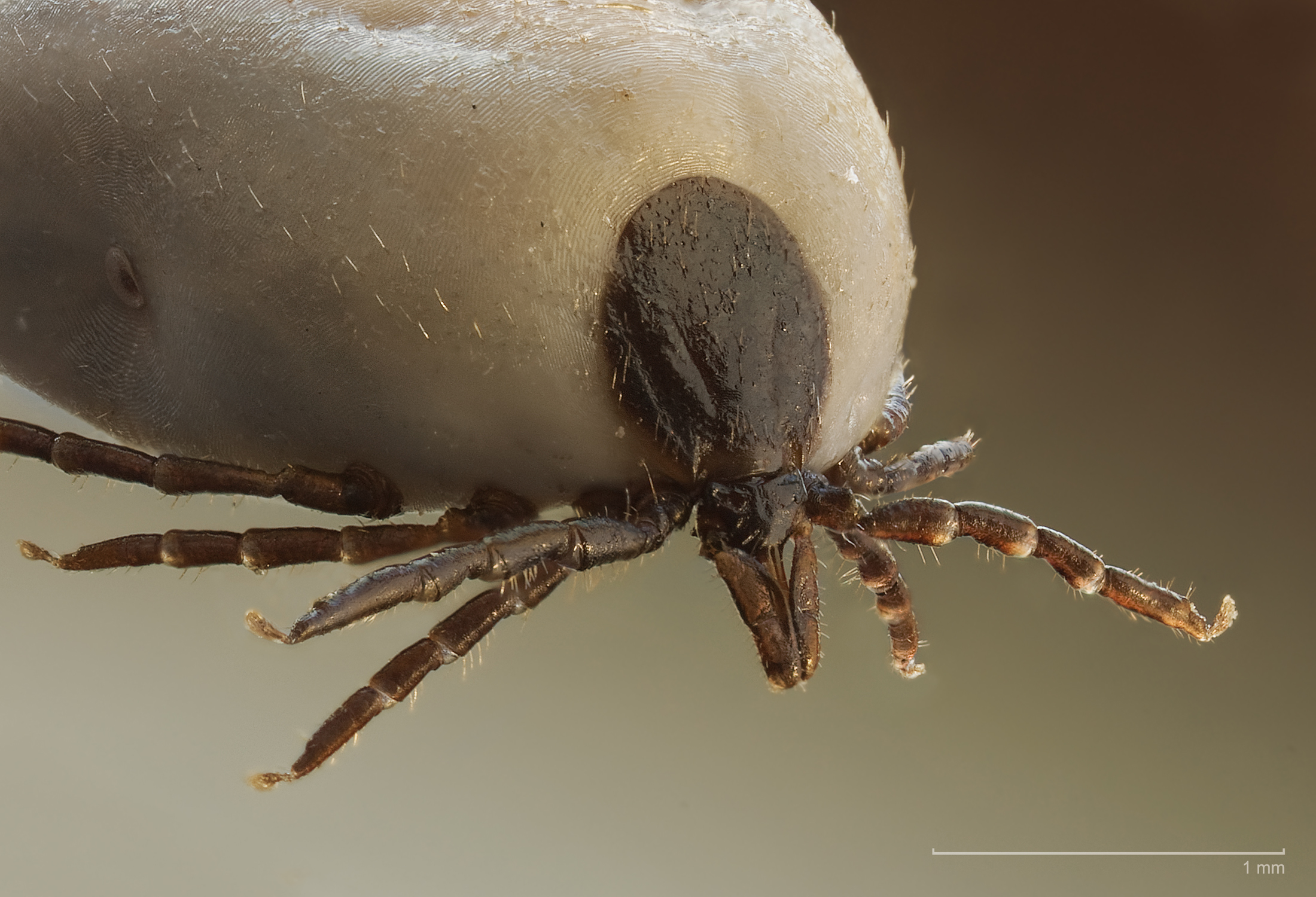 Chelicera of the sheep tick.